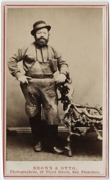 Author/Creator: Brown & Otto. Part of: Carl Mautz collection of cartes-de-visite photographs created by California photographers. Physical Description: 1 photographic print cartes-de-visite, b&w approx. 9.0 x 5.7 cm. on mount 10.7 x 6.5 cm. Folder or box number: Folder Brown & Otto Genre/Form: Photographs Cartes-de-visite Photographic prints Studio portraits Cite as: Yale Collection of Western Americana, Beinecke Rare Book and Manuscript Library Repository: Beinecke Rare Book & Manuscript Library, Yale University Bibliographic Record Number: 2015089 Call Number: WA Photos 357 View our Record: Permalink Flickr data on 2011-08-25: Tags: farrier License: CC BY-SA 2.0 User: Beinecke Library